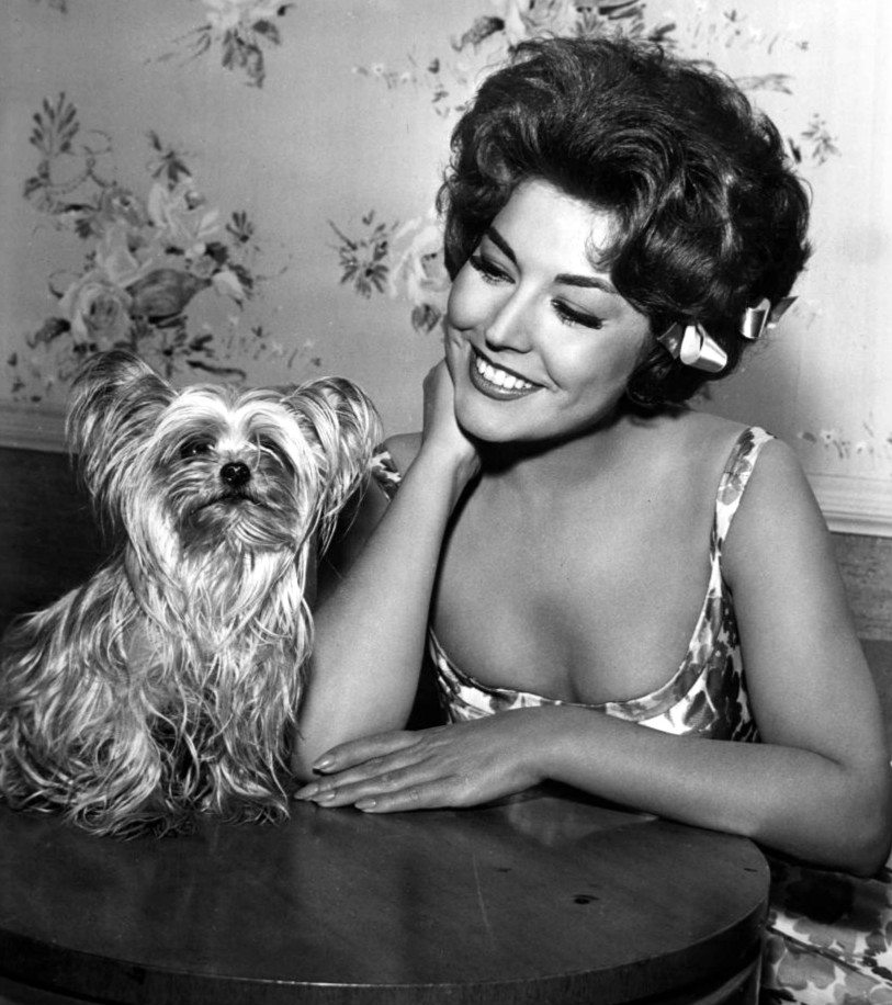 Photo of Margarita Sierra, whose best known role was as Cha Cha O'Brien on the television program Surfside 6.